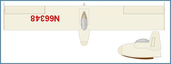 Al Backstorm Flying Wing